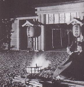 State Foundation Shrine in Manchukuo